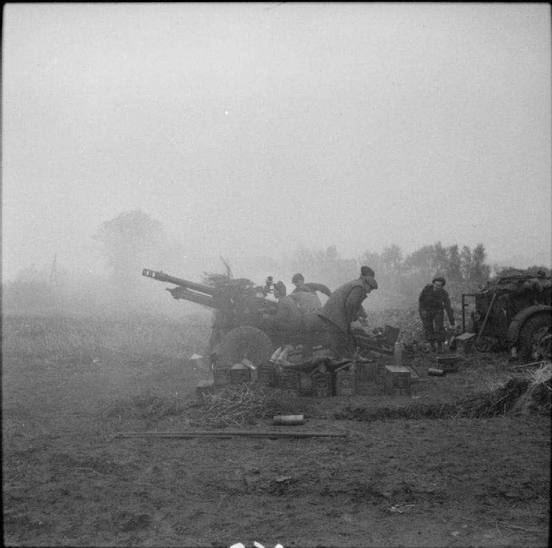 The British Army in North-west Europe 1944-45 25-pdr field guns in action during the advance on Hertogenbosch, 23 October 1944.